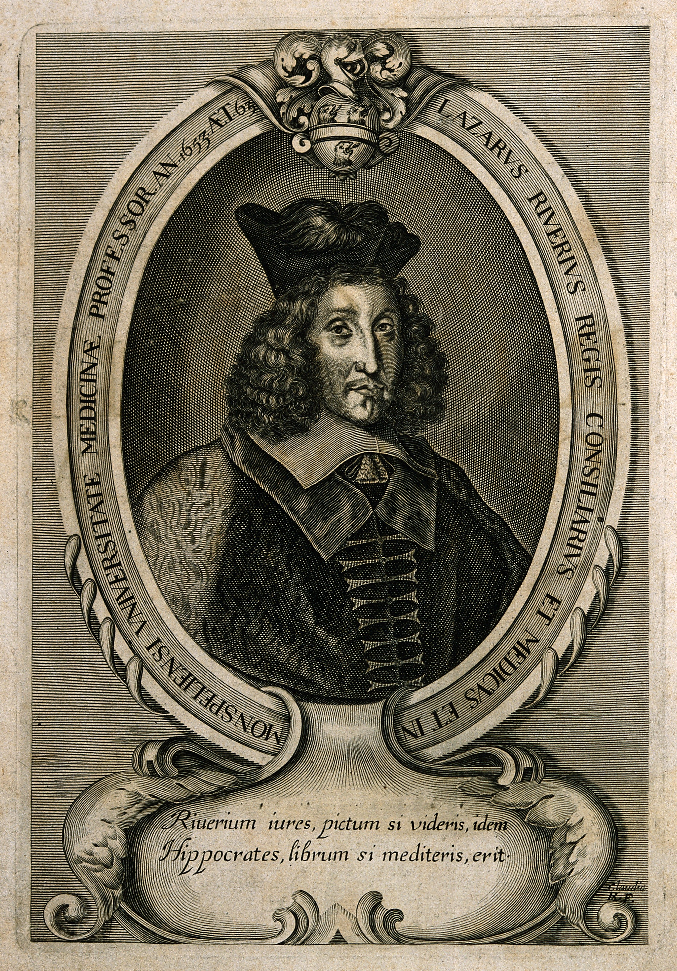 Lazare Rivière [Riverius]. Line engraving by C. Brunand. Iconographic Collections Keywords: portrait prints; C. Brunand; Lazare Rivière